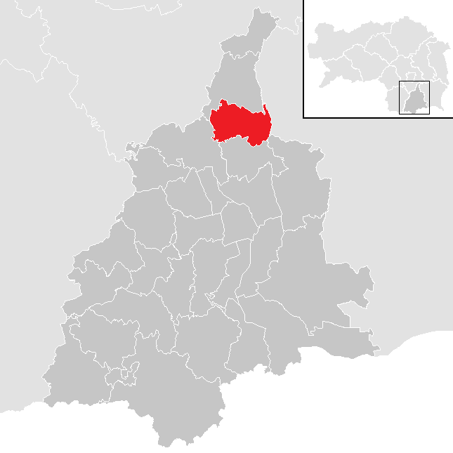 District Leibnitz